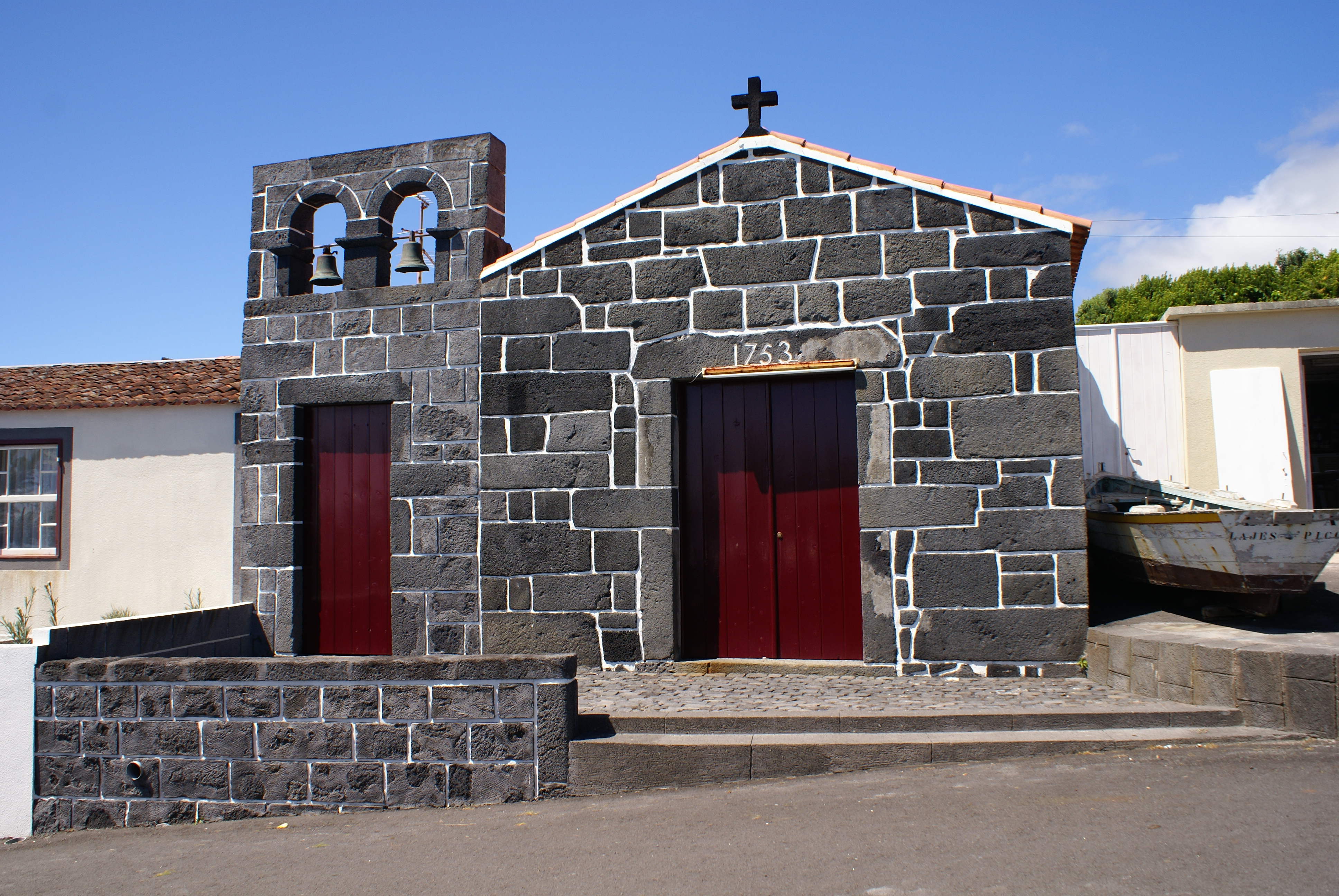 Ermida de Nossa Senhora da Conceição, fachada, São Mateus, concelho da Madalena do Pico, ilha do Pico, Açores, Portugal